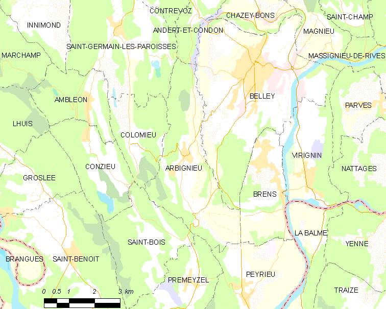 Map of French commune: Arbignieu Map commune FR insee code 01015.png